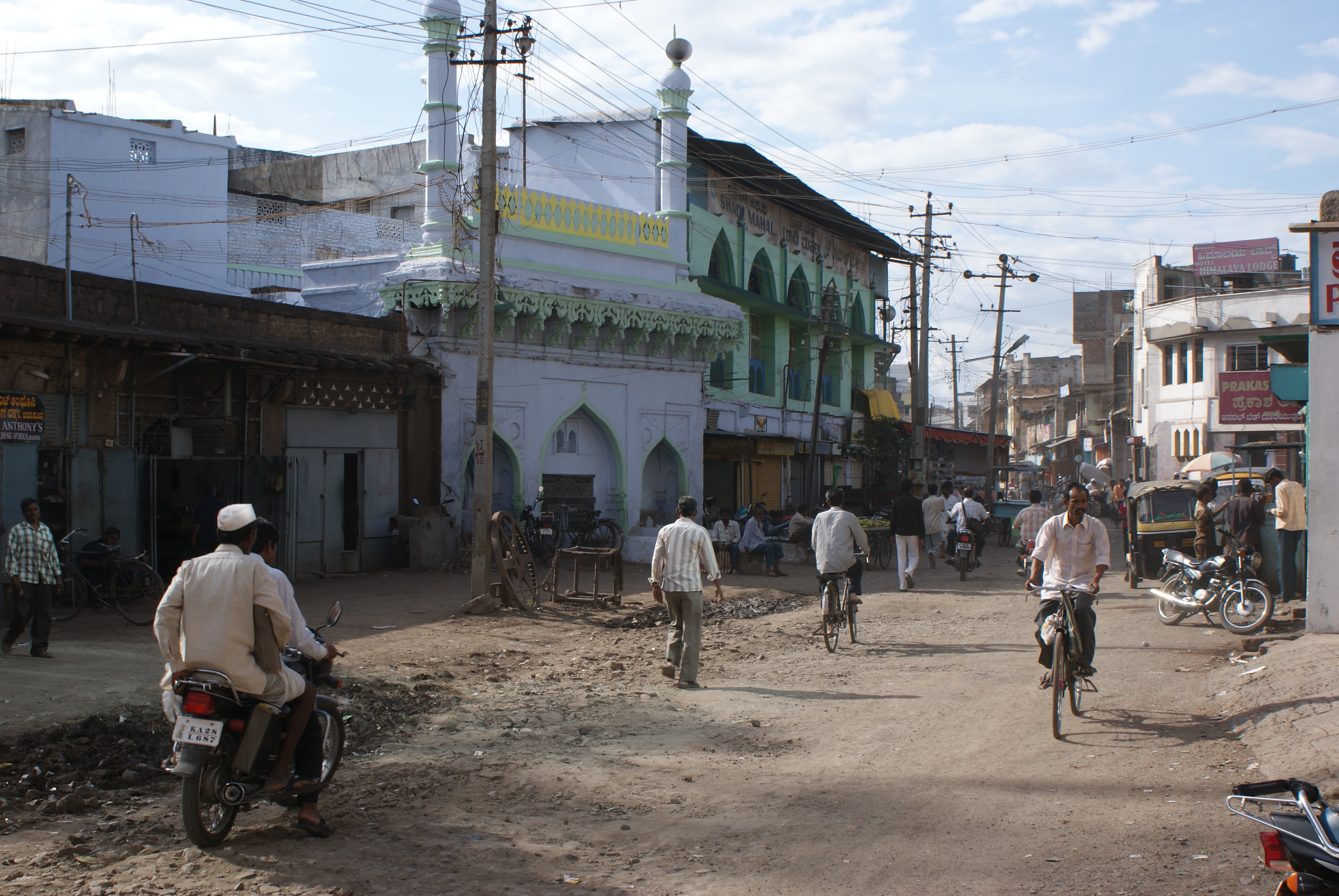 A street in Bijapur, Karnataka